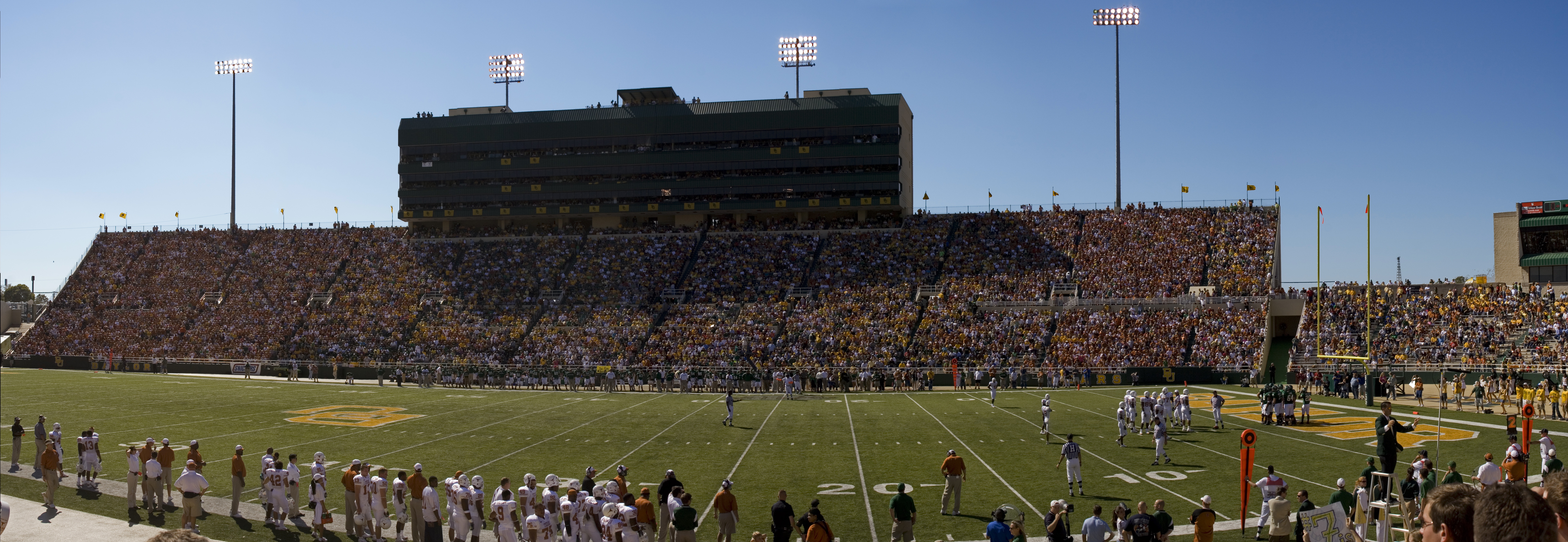 This is a 7 picture panoramic shot in portrait orientation. It is arranged in a 1x7 format. It is a picture of Floyd Casey Stadium in Waco, TX, USA taken on November 5th, 2005 during the UT vs Baylor Game.